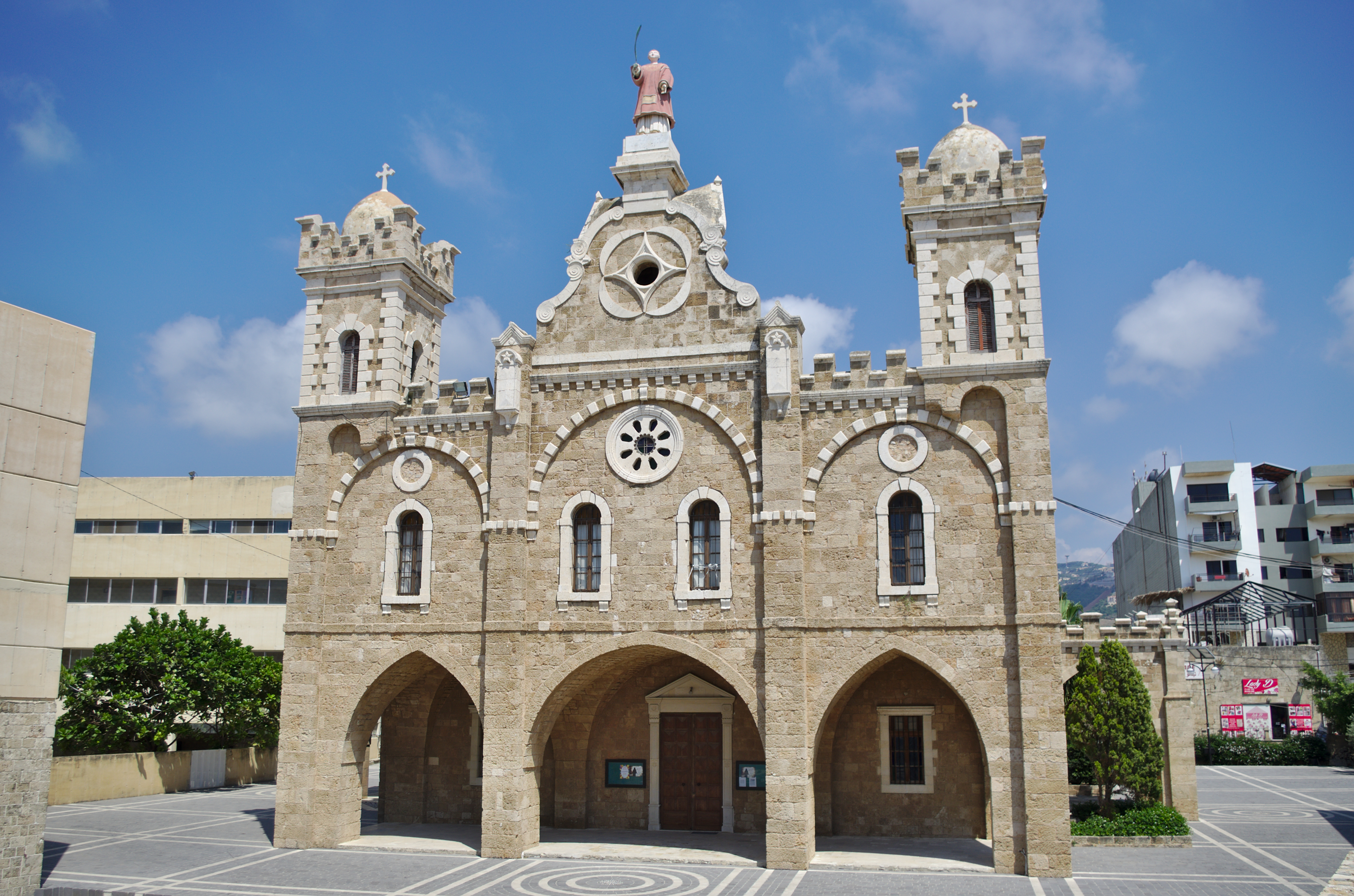 Lebanon - 20150614 - Batroun - St Stephen's church